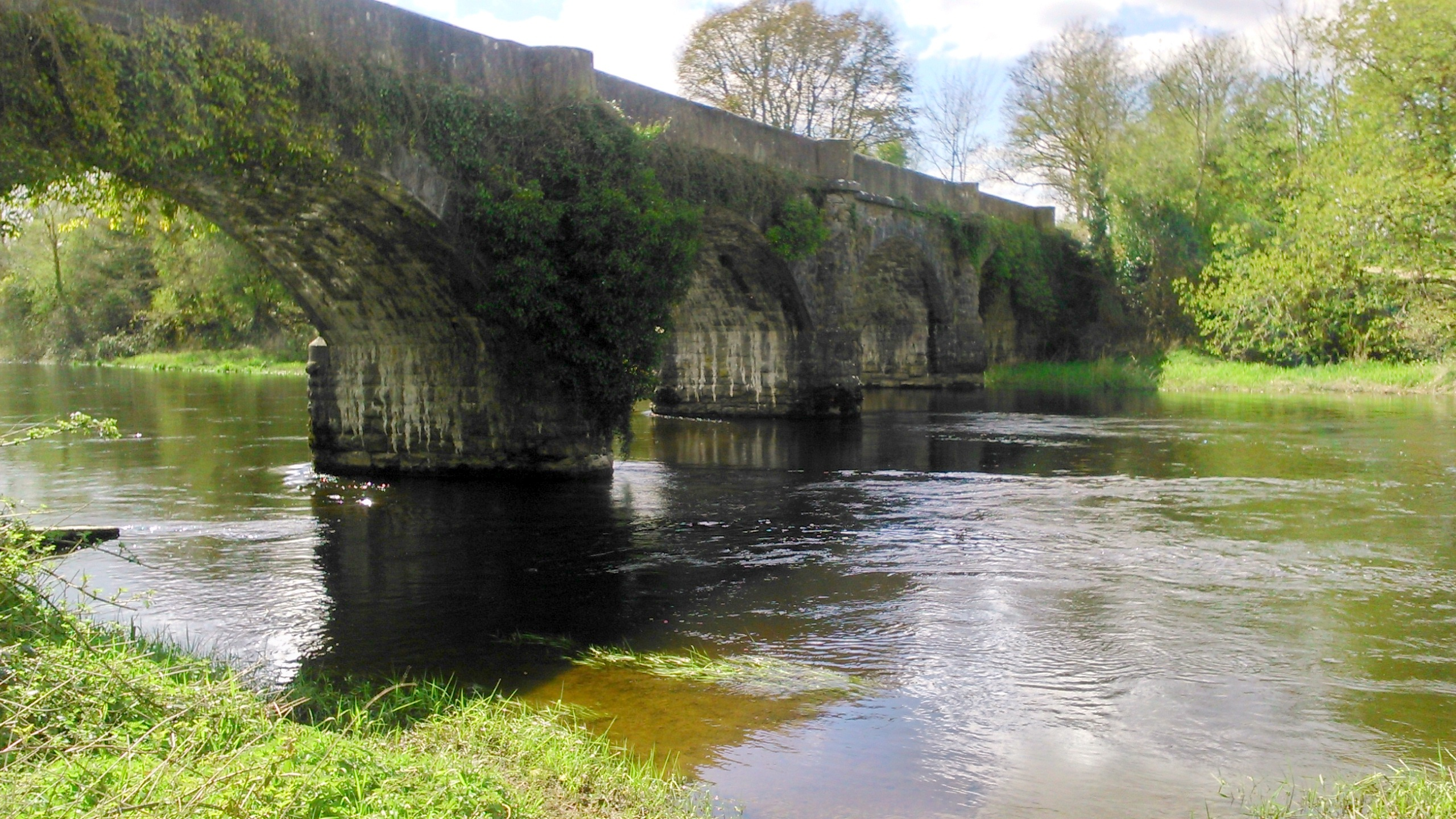 Old railway bridge in Belturbet, County Cavan